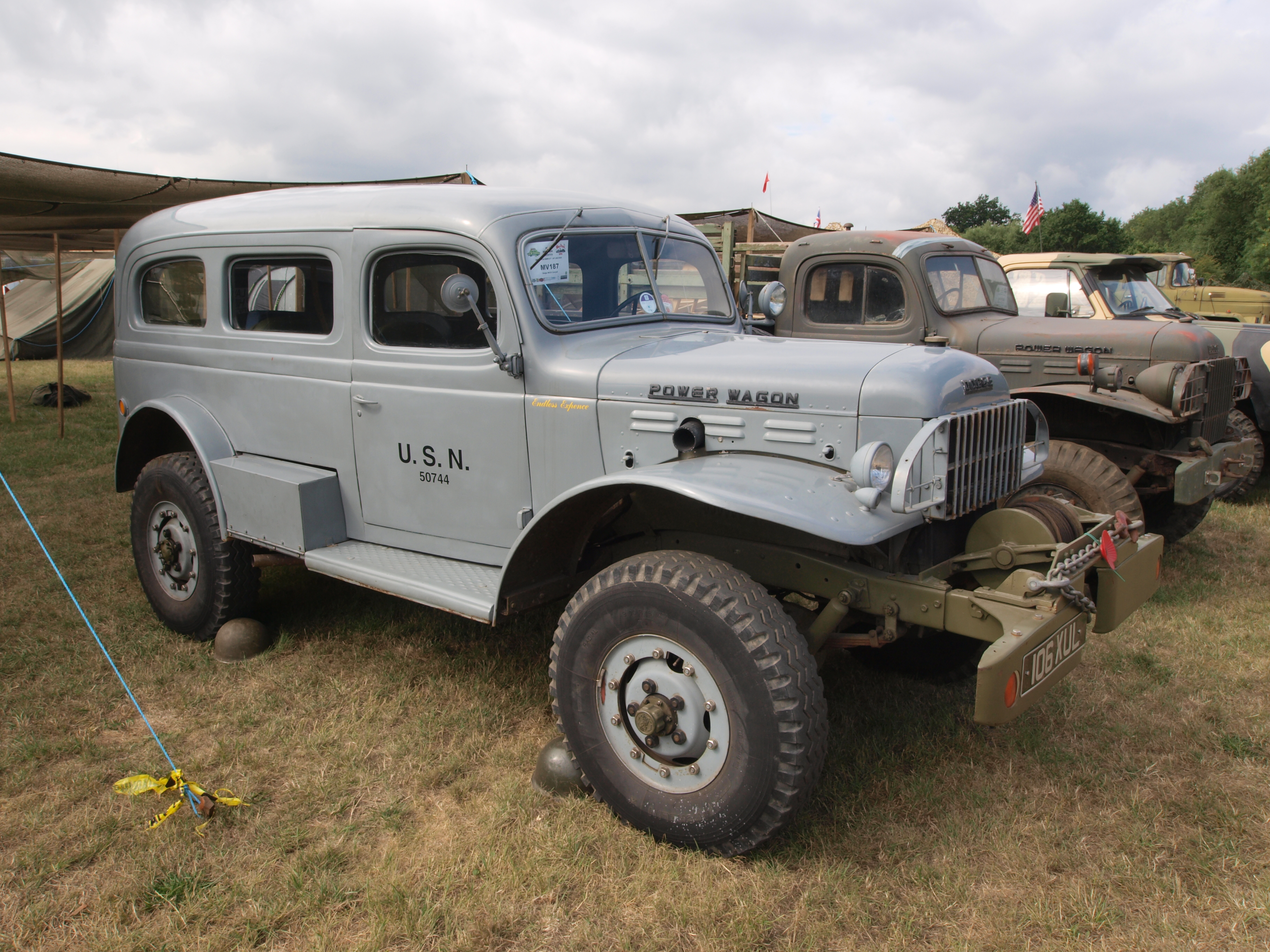 Dodge W300M Power Wagon (1958) USA (owner Dan Hodges).